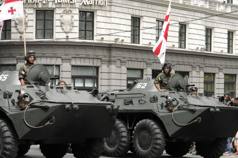 Georgian army BTR-80s.